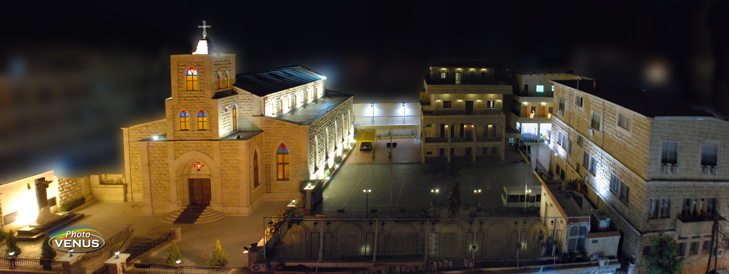 Armenian Evangelical Bethel Secondary School in Aleppo, Syria